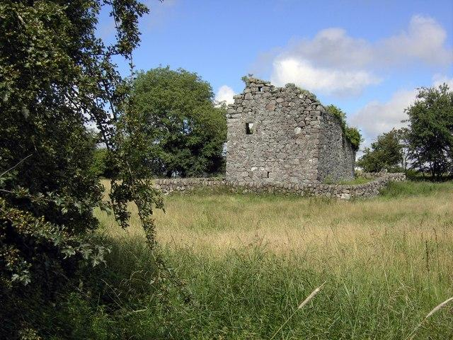 Edingham Castle Edingham castle actually a tower, near Dalbeattie.